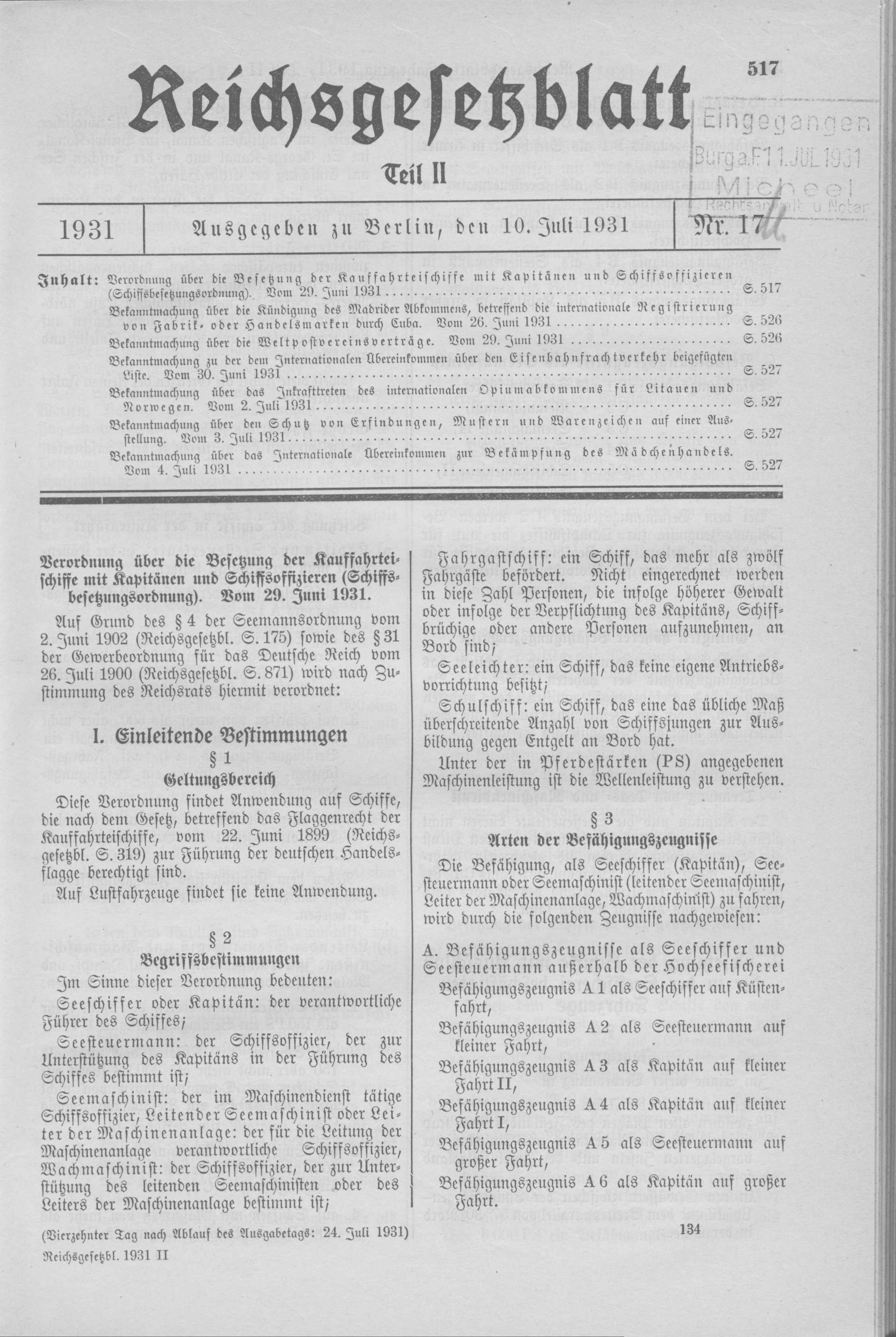 Scan from the Imperial Law Gazette of Germany, 1931, part 2